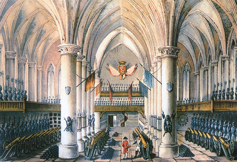 The arsenal of the city of Bremen, Germany, in the 18th century, located in the former Katharinenkloster. Print of a water color painting by Jacob Ephraim Polzin (1778–1851).